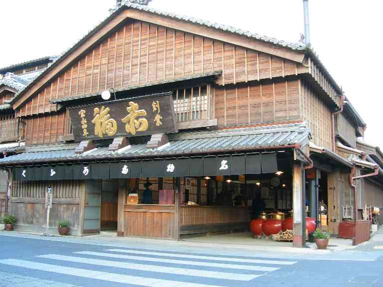 Akahuku is a rice cake which is famous sweets near Kotaijingu of Ise Shrine, Ise city, Mie prefecture Japan, scince 1707.